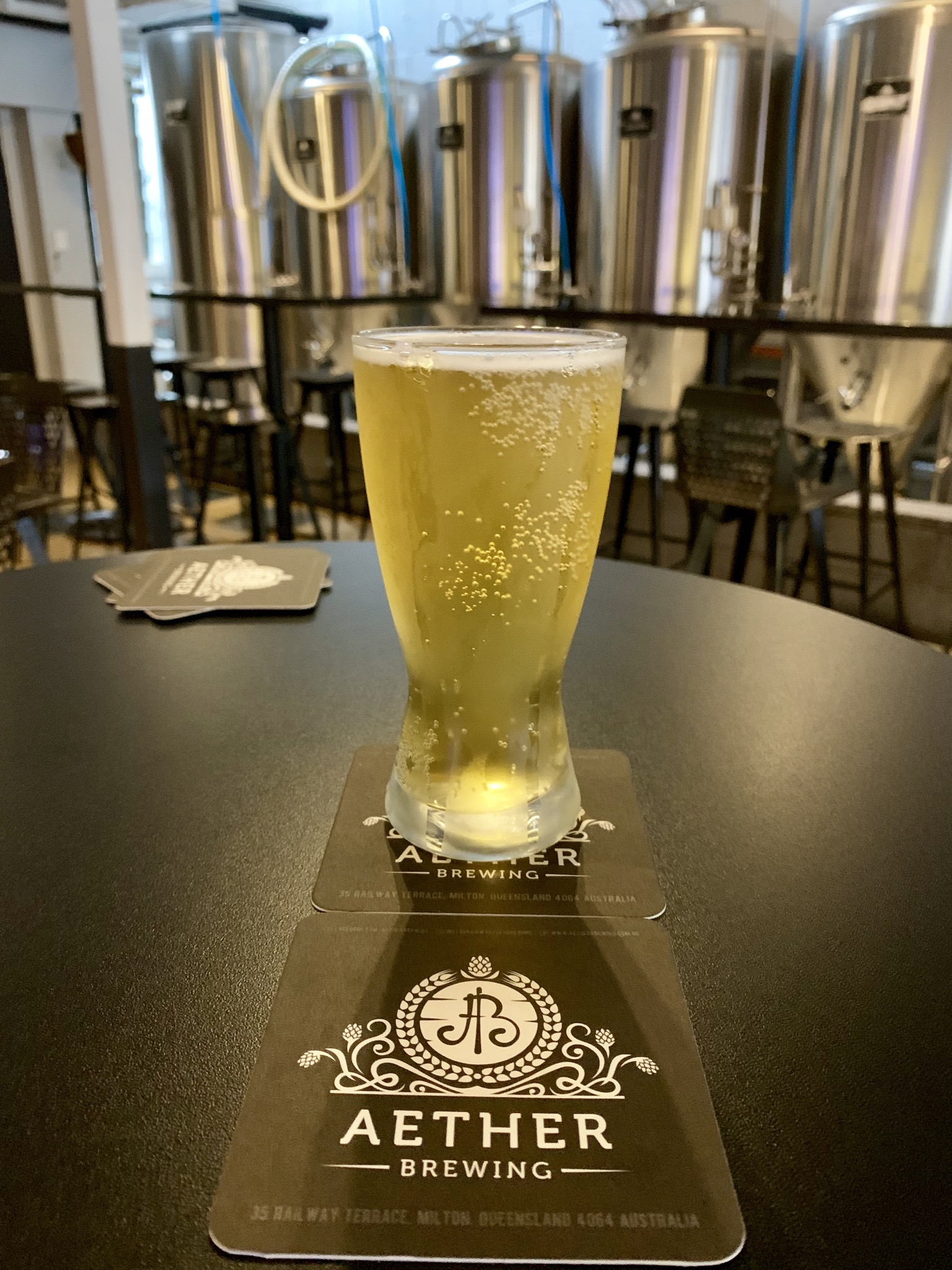 Aether Brewing, Milton, Queensland